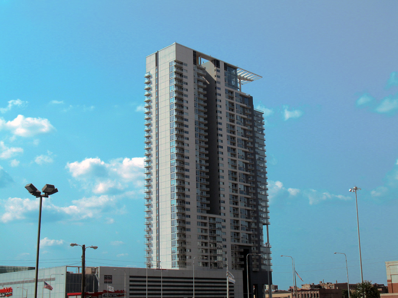 Photograph of the Skybridge in Chicago photographed from the corner of Desplaines Street and Monroe Street.